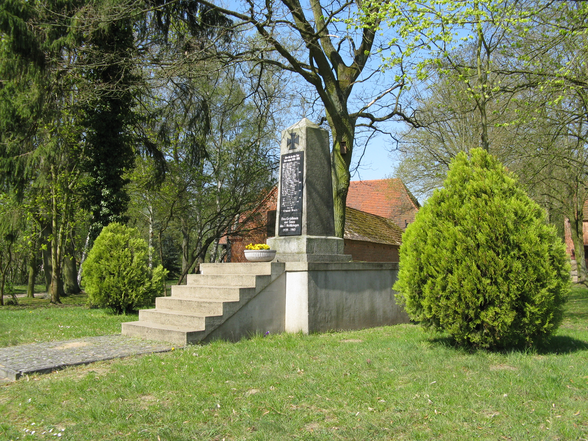 War memorial in Demen, disctrict Ludwigslust-Parchim, Mecklenburg-Vorpommern, Germany